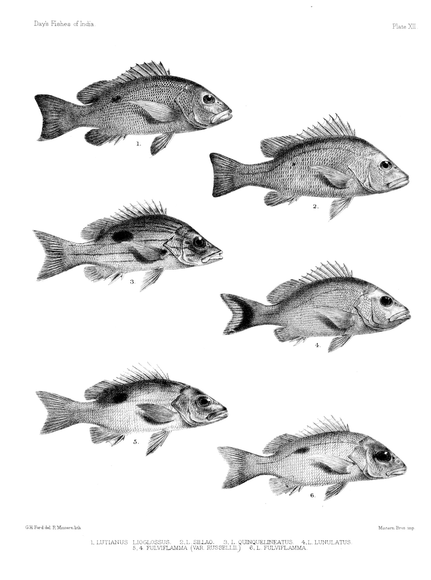 1 – Lutianus lioglossus (=Lutjanus monostigma), 2 – Lutianus sillao (???), 3 – Lutianus quinquelineatus (=Lutjanus quinquelineatus), 4 – Lutianus lunulatus (=Lutjanus lunulatus), 5 – Lutianus fulviflamma var. russellii (=Lutjanus russellii), 6 – Lutianus fulviflamma (=Lutjanus fulviflamma).